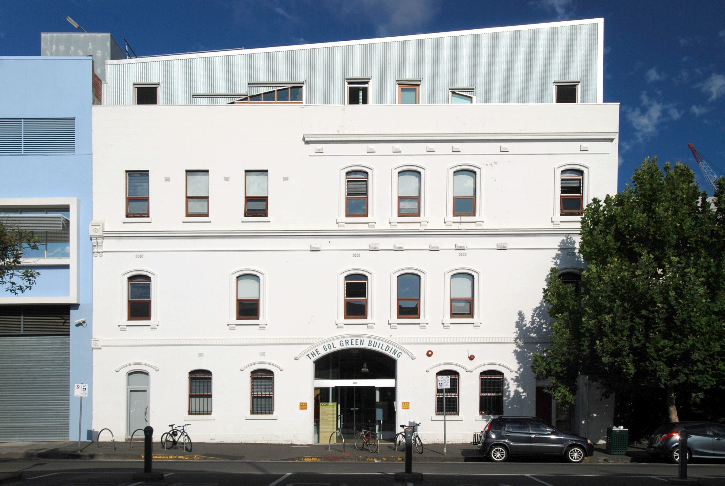 The Australian Conservation Foundation's 60L Green Building, Carlton, Melbourne